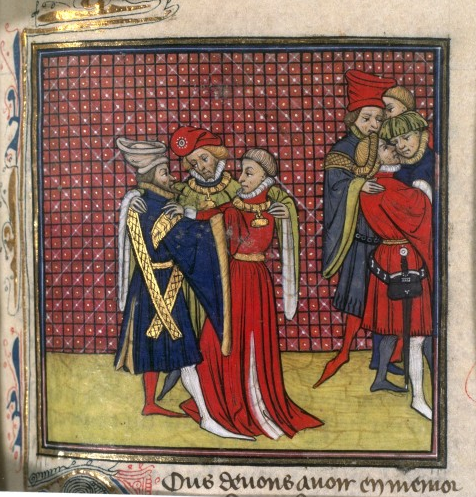 Theobald I of Navarre, Peter I of Brittany and Hugh X of Lusignan